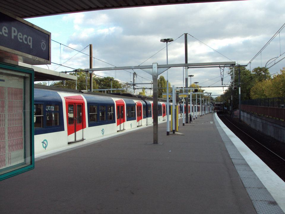 Eastward view from RER A platform at Le Vesinet Le Pecq station taken by myself October 2011.